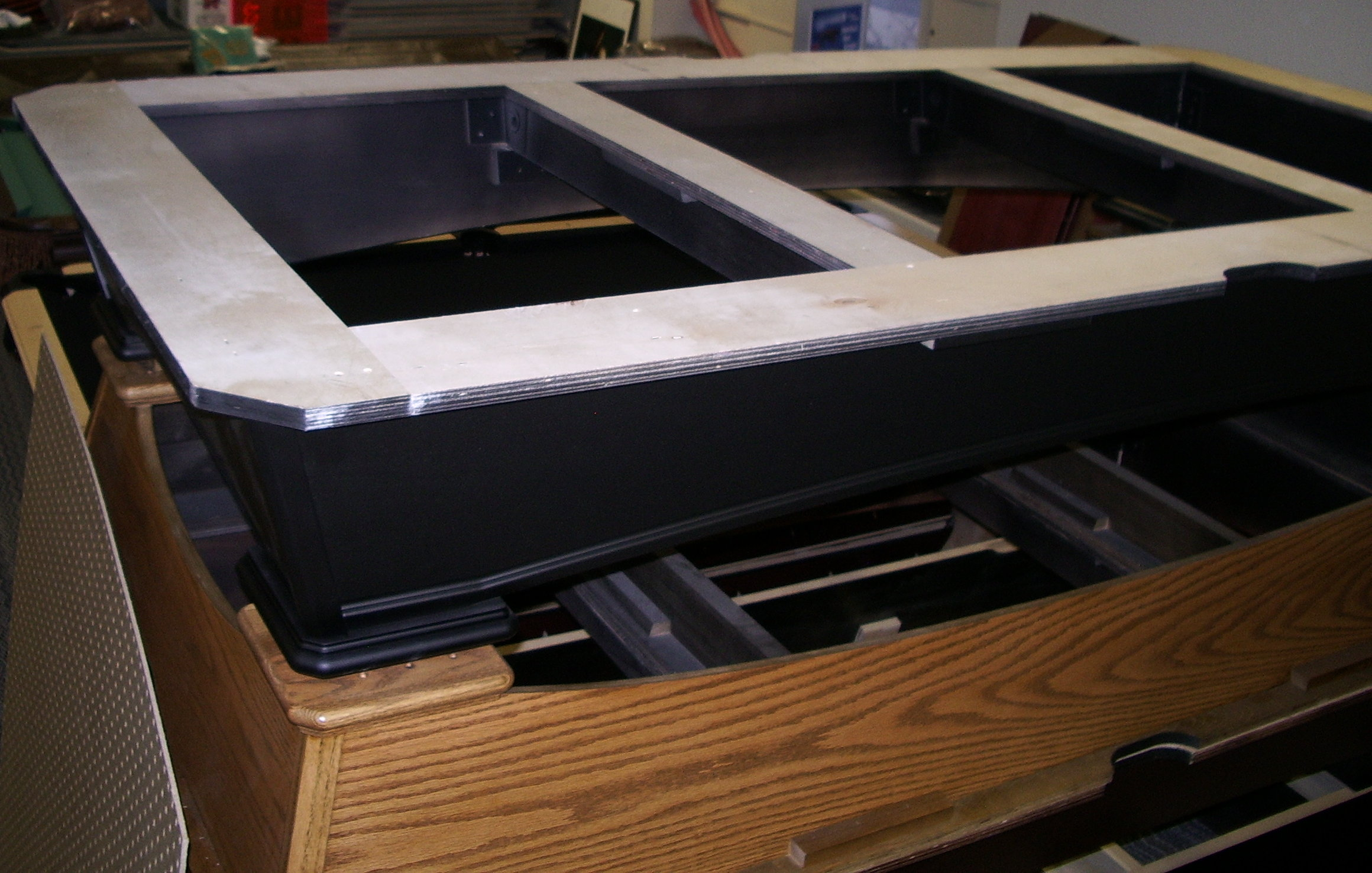 Stacked pool table frames showing the support struts for the table bed slates.